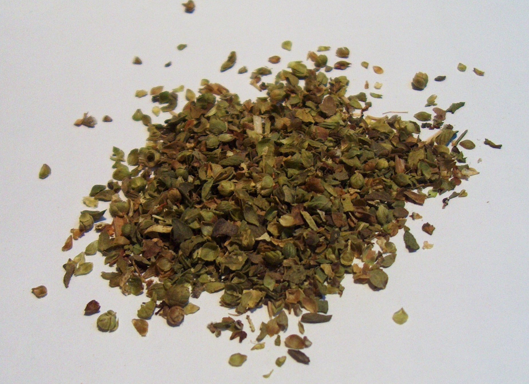 Oregano